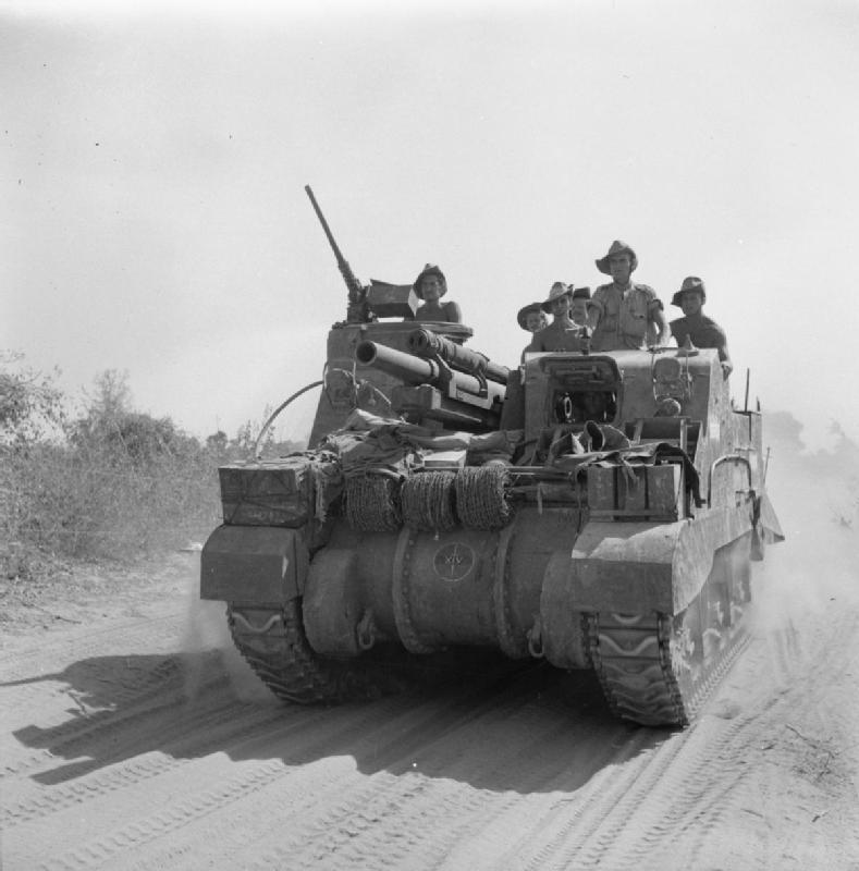 THE BRITISH ARMY IN BURMA 1945; Priest 105mm self-propelled gun